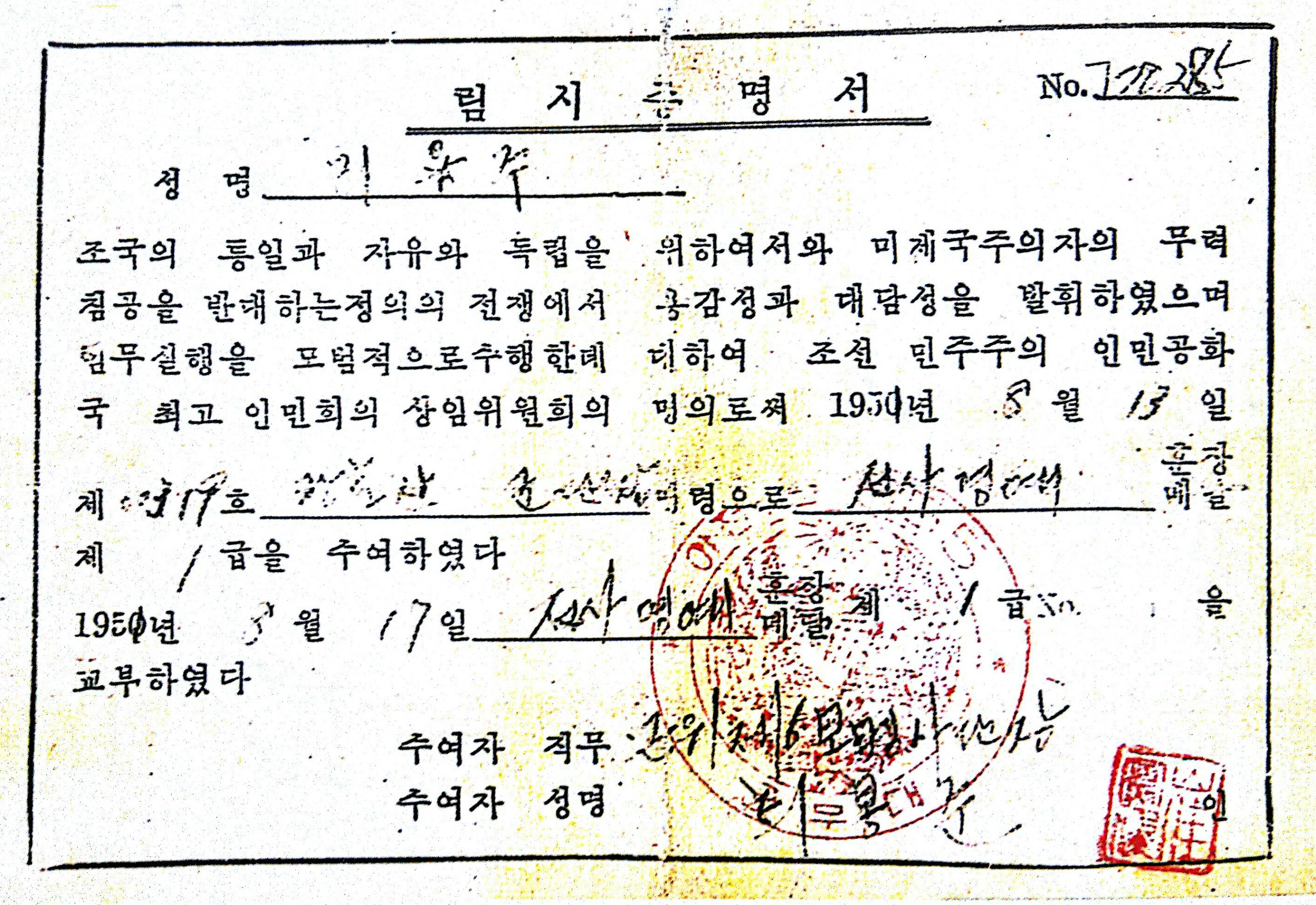 Order of Soldier's Honor 1st class temporary document